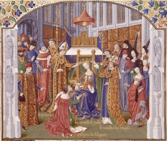 Miniature: coronation of Guy de Lusignan